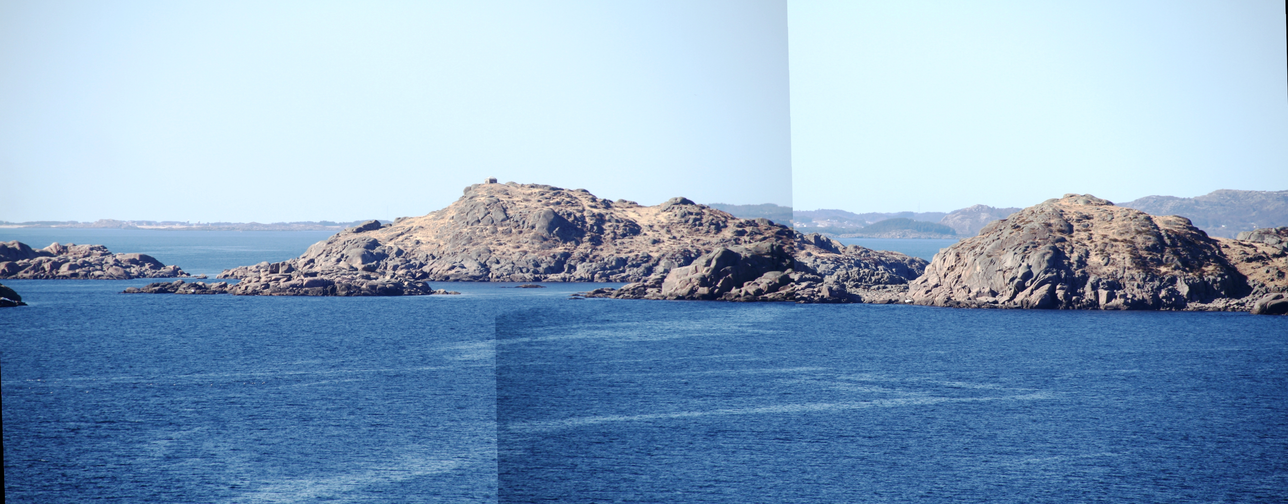 Grønsfjorden in Lindesnes municipality, with the island Markøy in the centre of the image. The building on top of the island is the 18th Century Markøy Lighthouse, a Cultural Heritage Object.